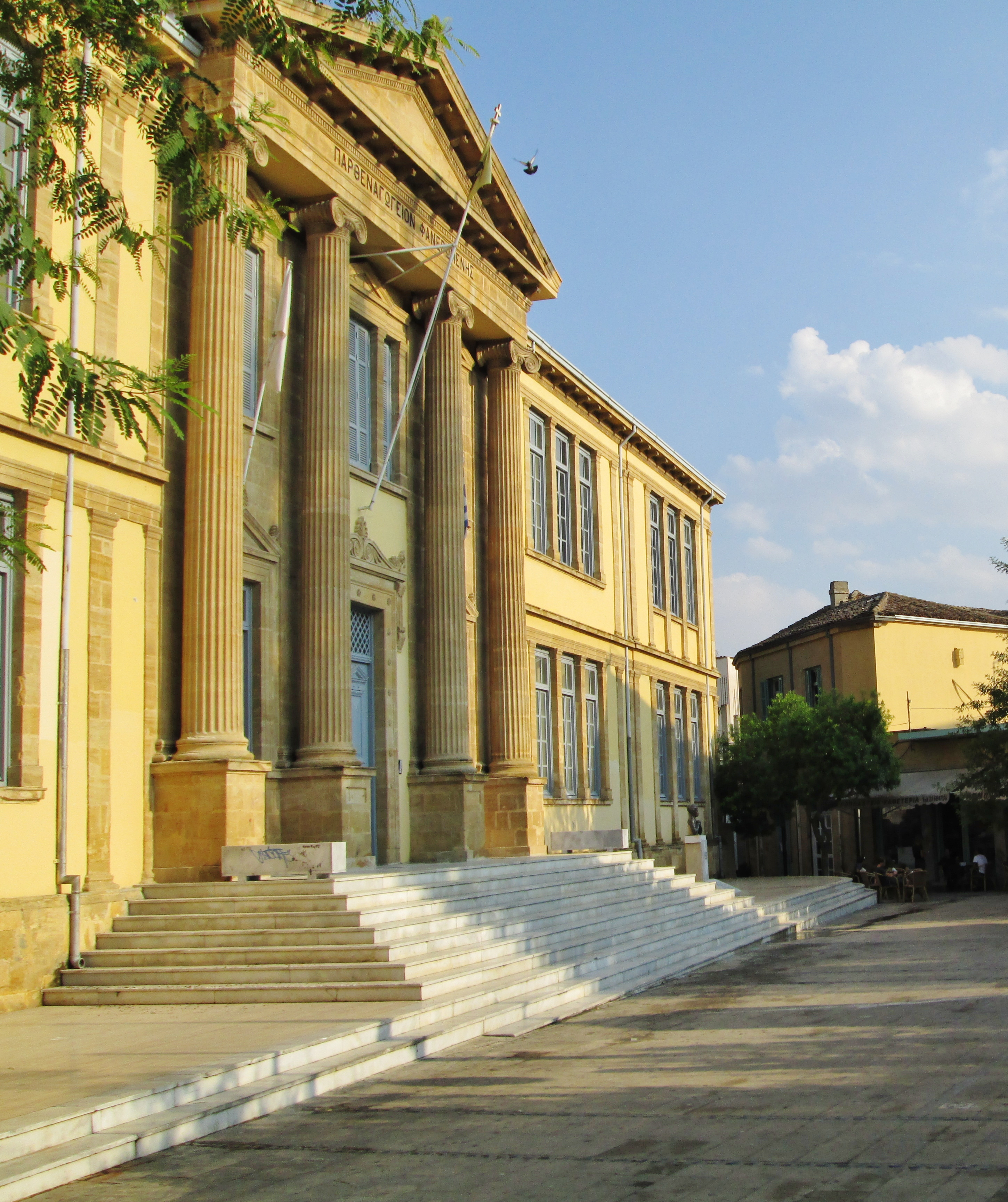 Faneromeni old grand school in Nicosia Republic of Cyprus